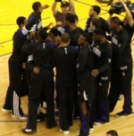 Players from the 2011-12 Sacramento Kings huddled together prior to the tip-off of their exhibition opener at Oracle Arena against the Golden State Warriors. This photograph was taken with an Olympus E-510 DSLR camera and edited (crop) using ArcSoft PhotoStudio 5.5